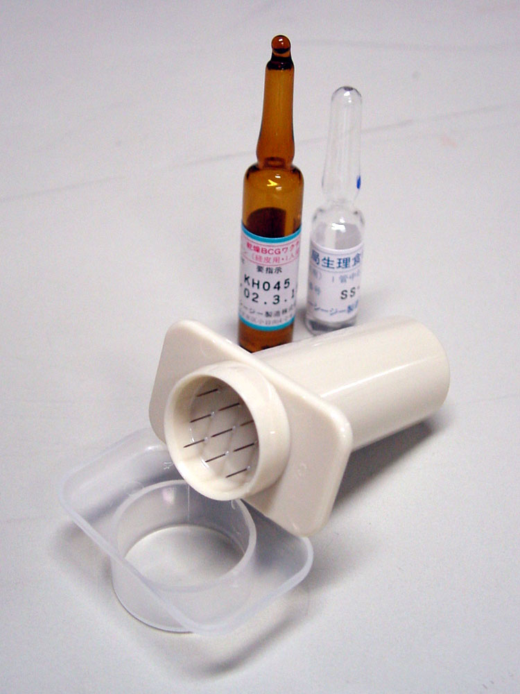 An apparatus for BCG vaccination using in Japan (管針, or Kuchiki's needle) and Ireland. Disposable apparatus of 4-5 cm length, with nine short needles for multi-puncture vaccination. Photo with ampules of BCG and saline.